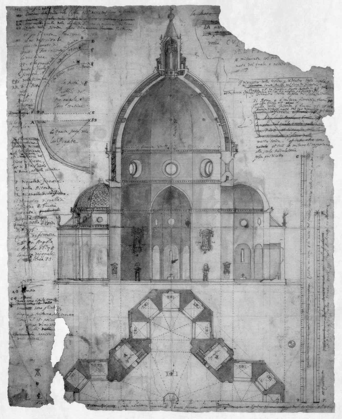 Cigoli's drawing of Brunelleschi's Santa Maria del Fiore (Florence Cathedral)